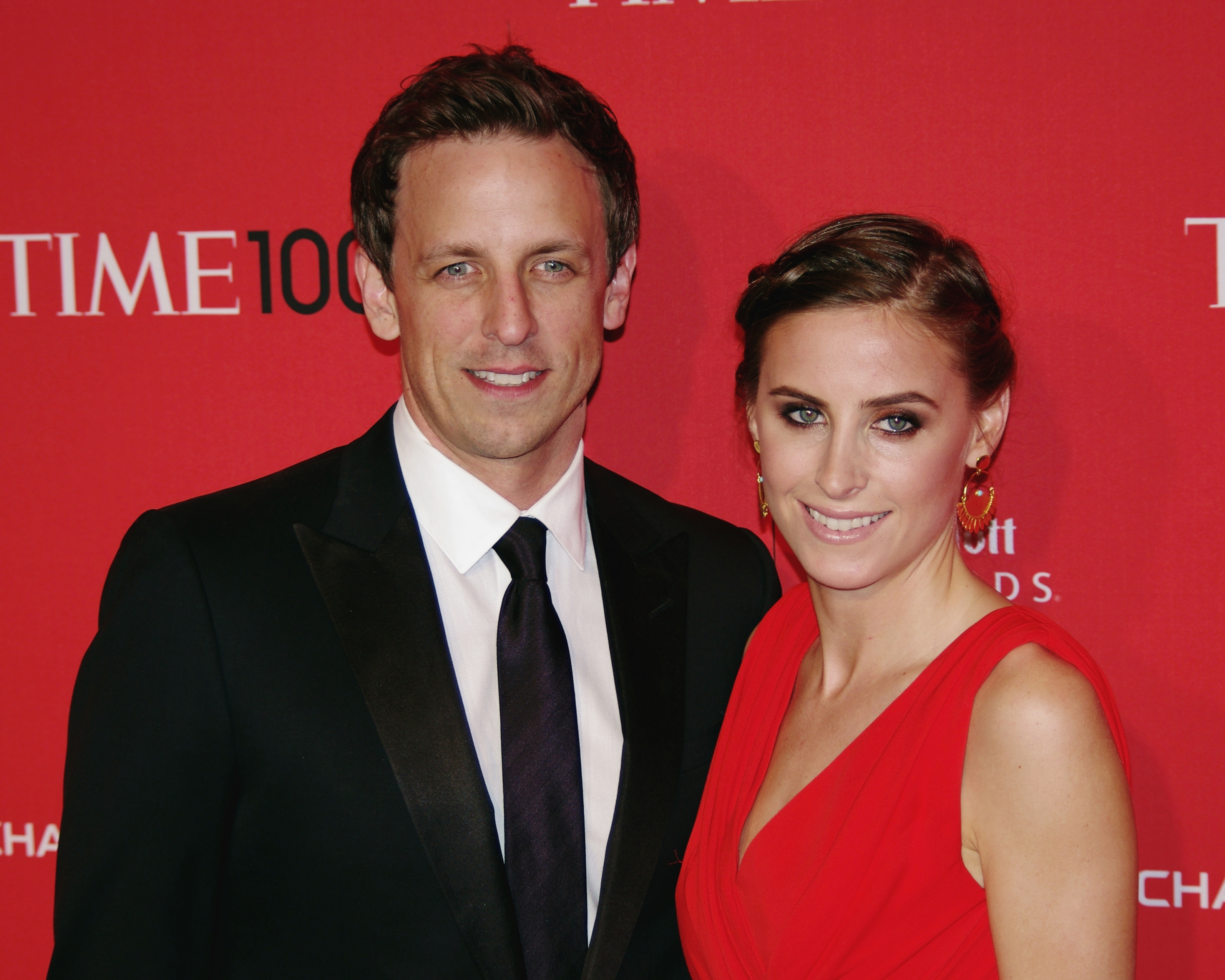 Seth Meyers and Alexi Ashe at the 2012 Time 100 gala.